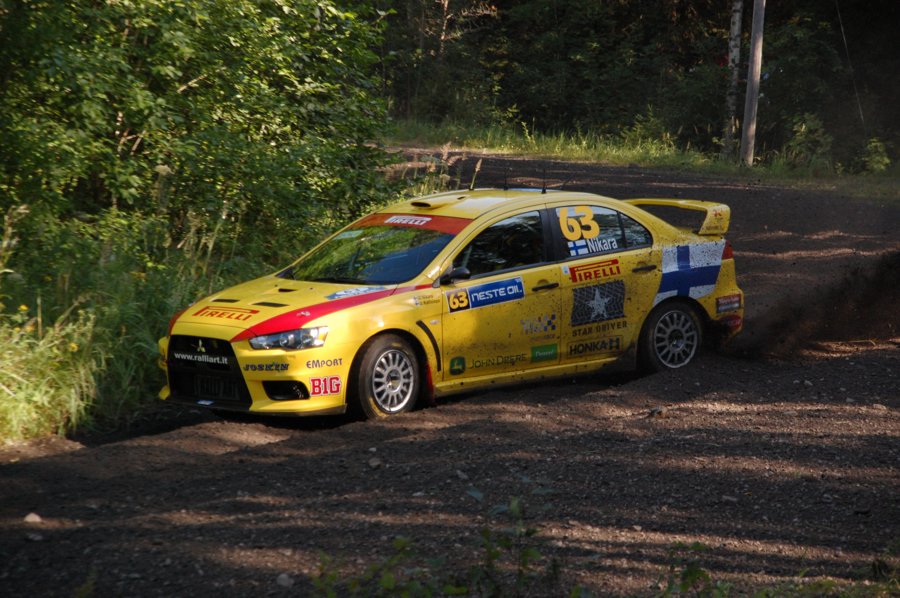 Jarkko Nikara - 2009 Rally Finland. More pictures on my website